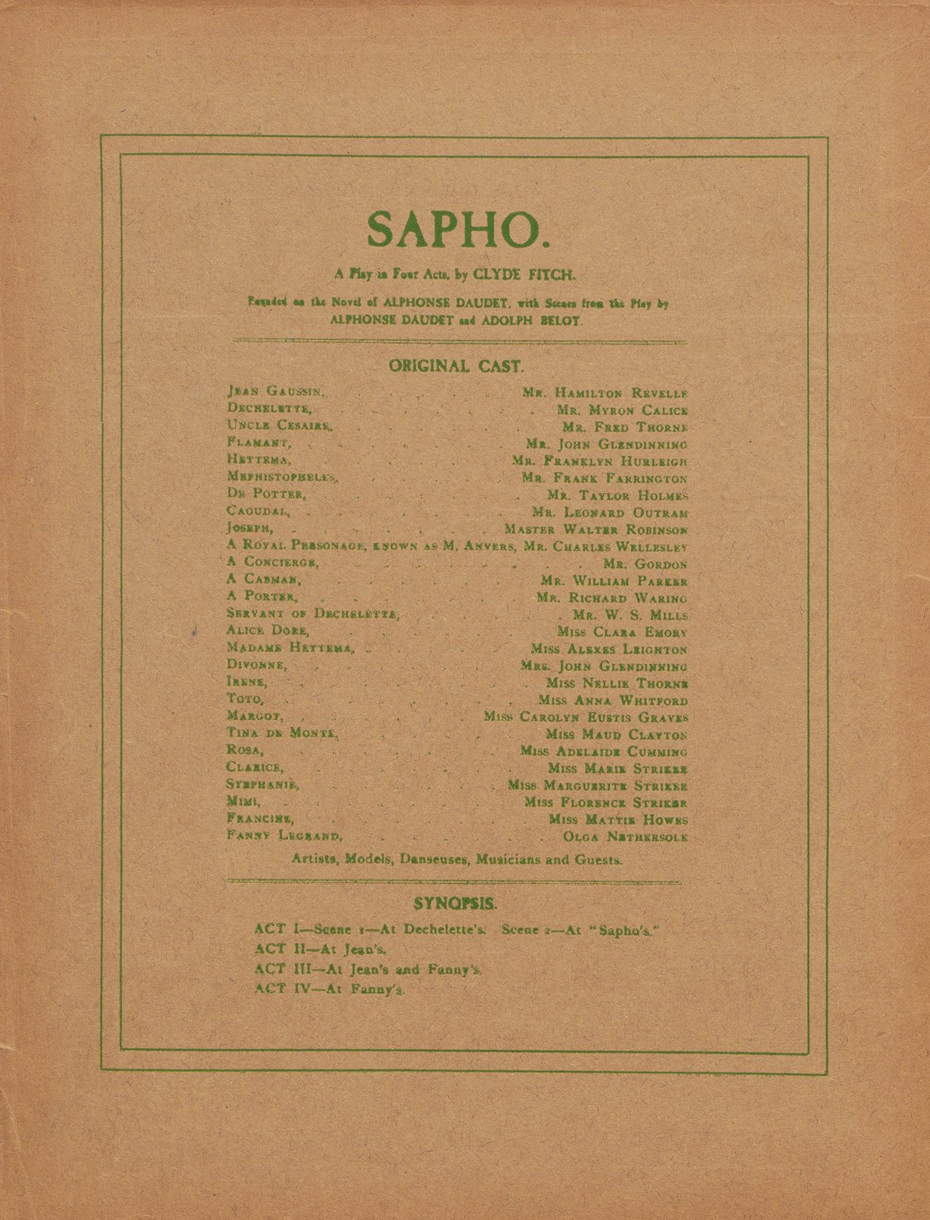 Listing of the original cast of Sapho, a play by Clyde Fitch, circa 1900. Performers include Hamilton Revelle and Olga Nethersole. From a souvenir collection of pictures, circa 1900. Souvenir Programs of Theatrical Productions, MS Thr 712 (87), Harvard Theatre Collection, Houghton Library, Harvard University